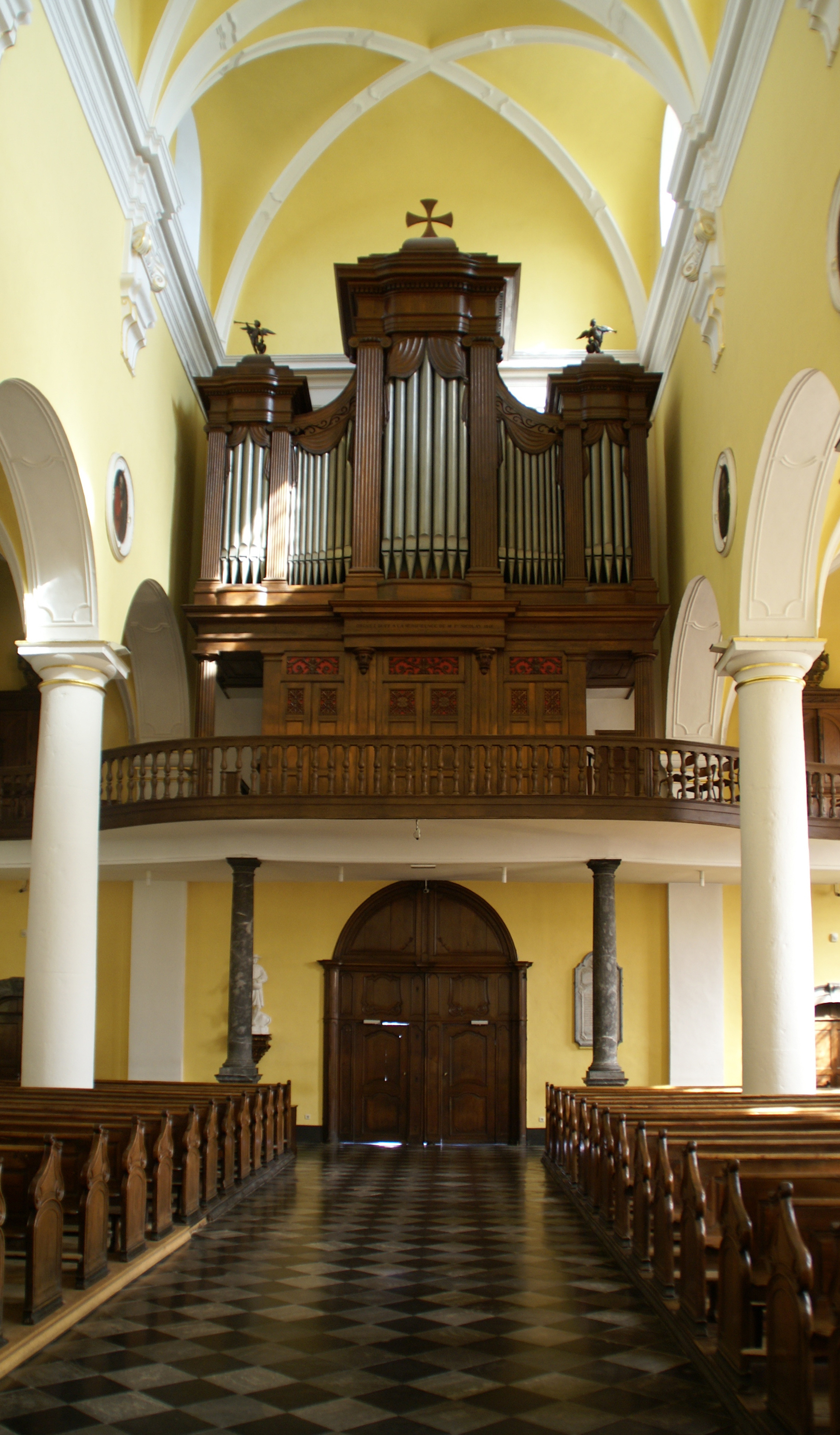 Stavelot (Belgium): Saint Sebastian Church, Organ built by Korfmacher